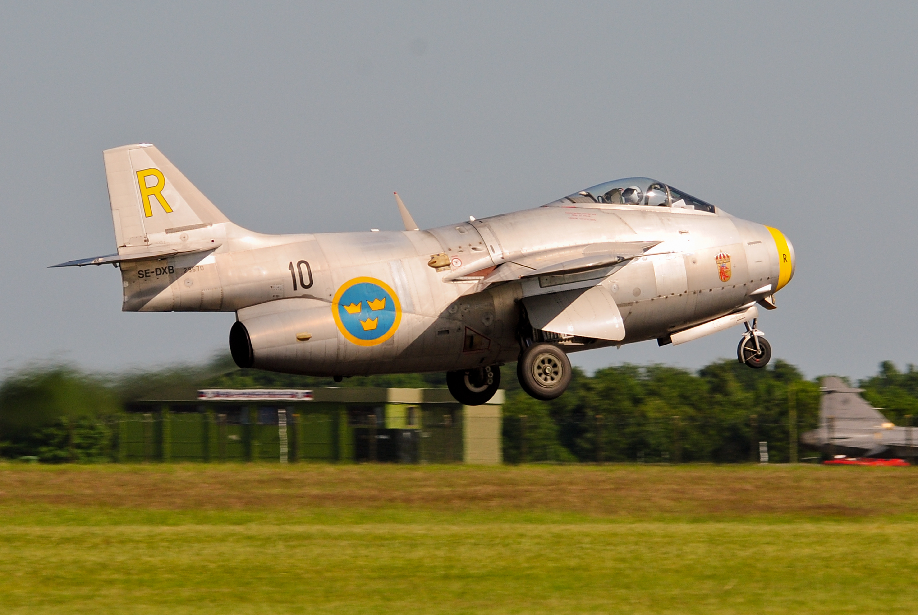 Swedish Air Force Historic Flight - Saab J29 Tunnan